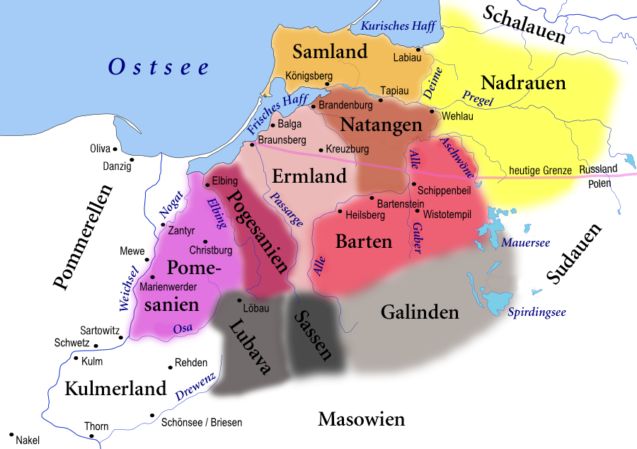 Map of historical regions in Old Prussia. All boundaries, rivers and lakes are approximate. Shoreline was depicted as it is today – it has changed significantly from the 13th century.